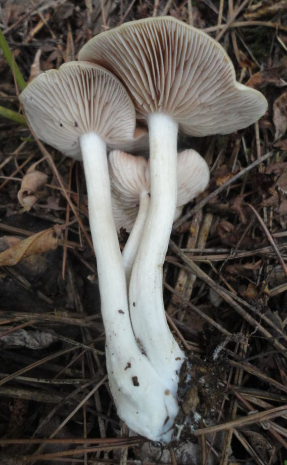 Entoloma clypeatum from Port Dover, Ontario, Canada